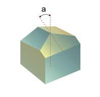 CubeCorner Diamond